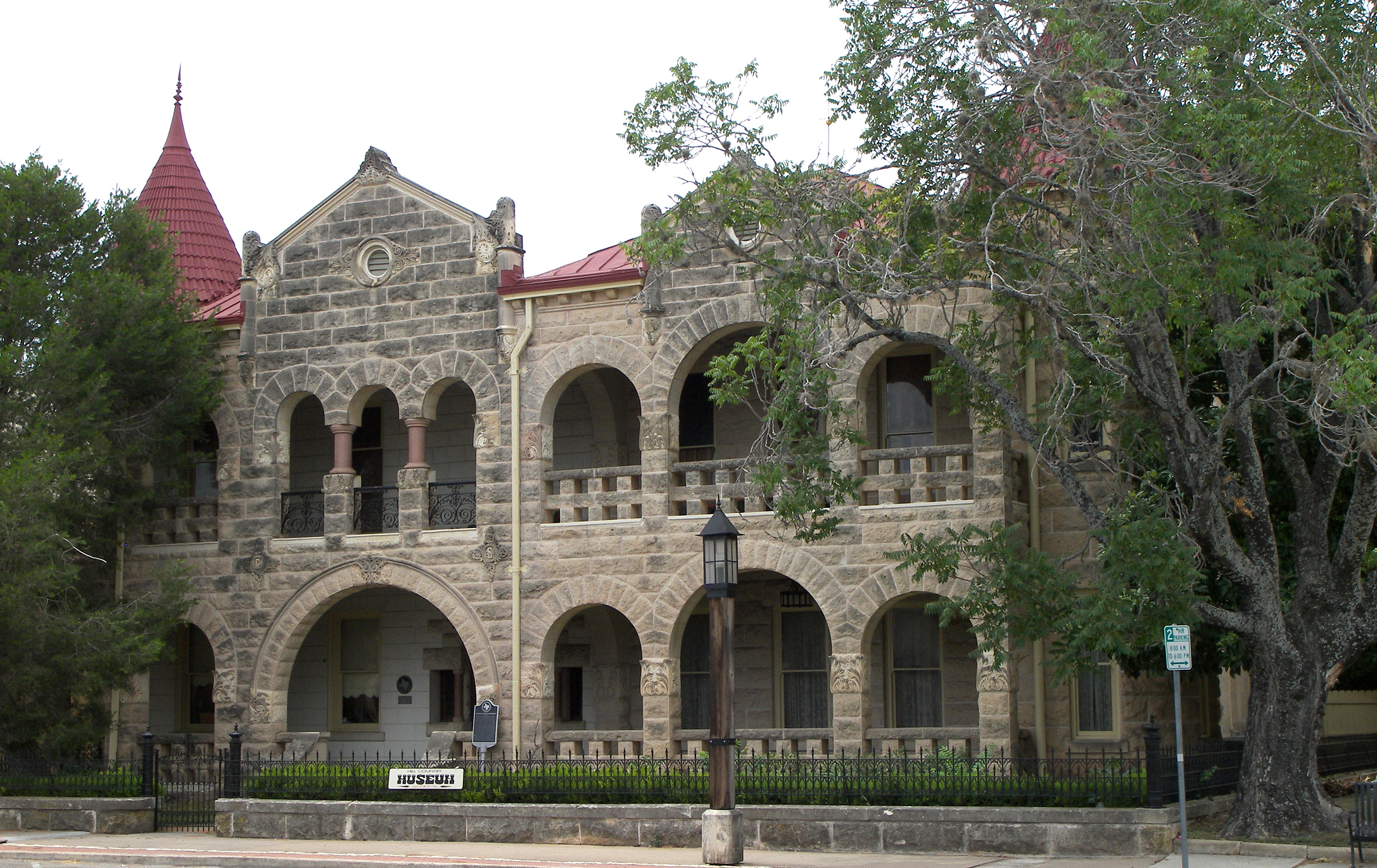 The Capt. Charles Schreiner Mansion located at 216 Earl Garrett St, Kerrville, Texas, United States. The house was designated a Recorded Texas Historic Landmark in 1962 and listed on the National Register of Historic Places on April 14, 1975.